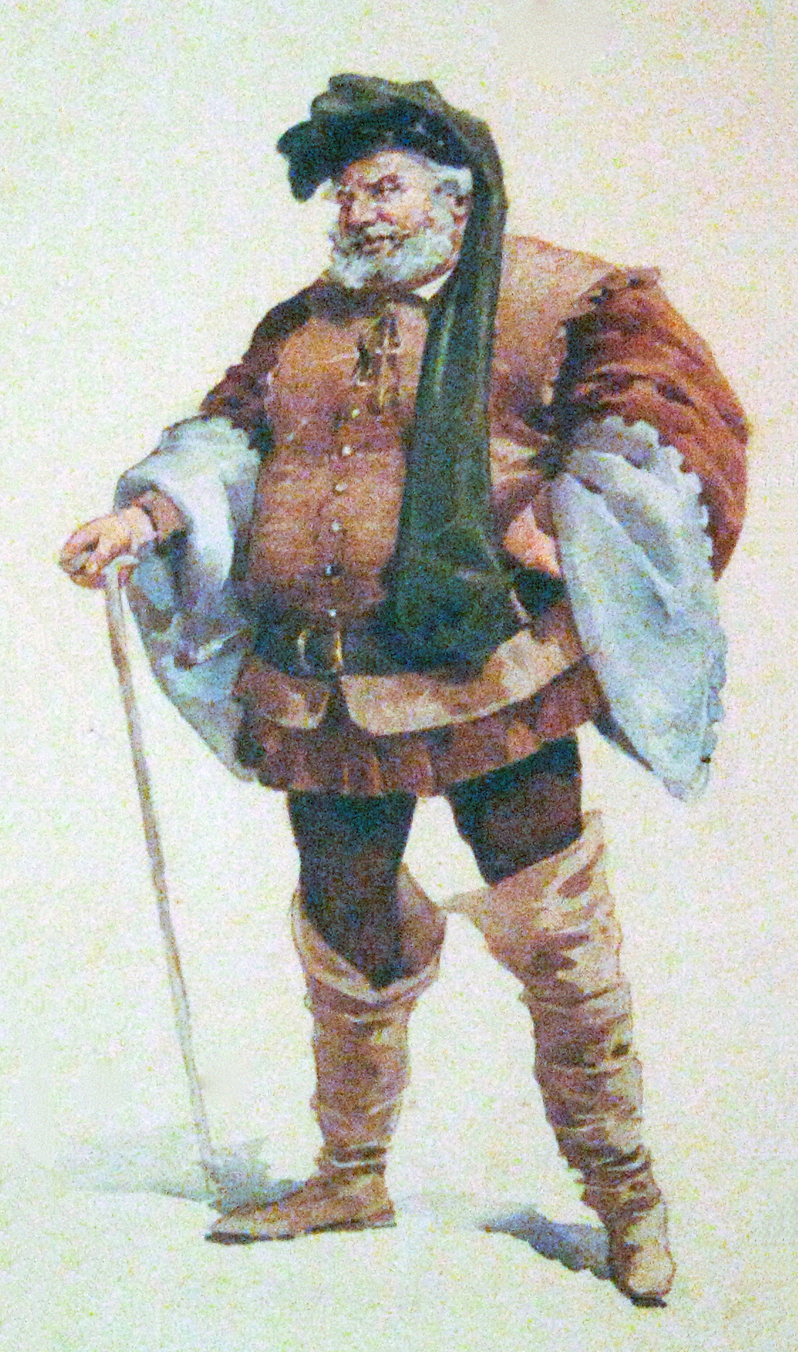 Giuseppe Verdi's opera Falstaff. Costume design realized on commission of Ricordi & c. by Adolf Hohenstein for the premiere at the Teatro alla Scala, February 9, Milan